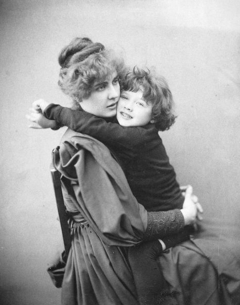 Constance Wilde with her son Cyril (1885–1915) in London, November 1889